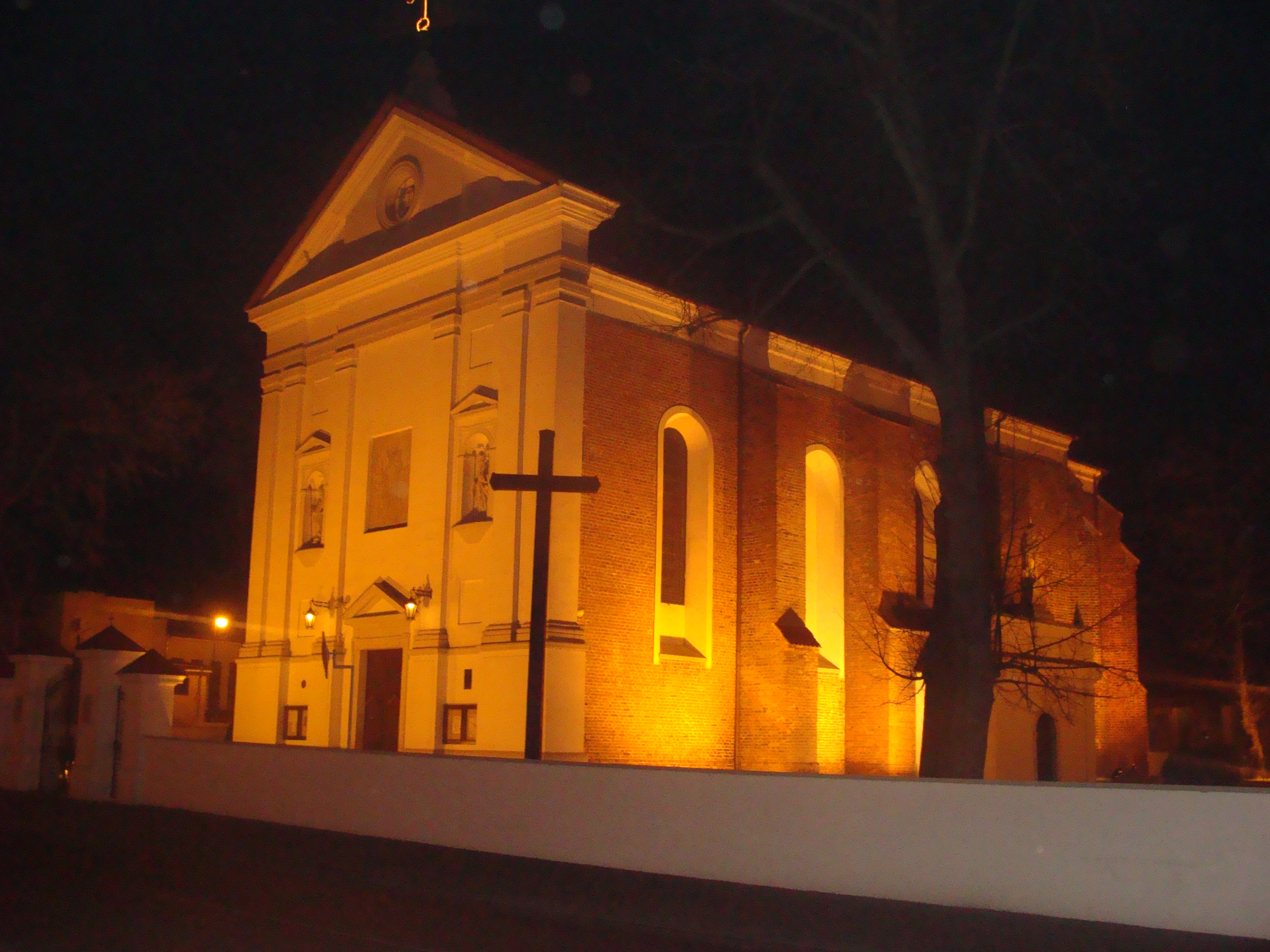 Saint Nicholas church in Tarczyn, Poland